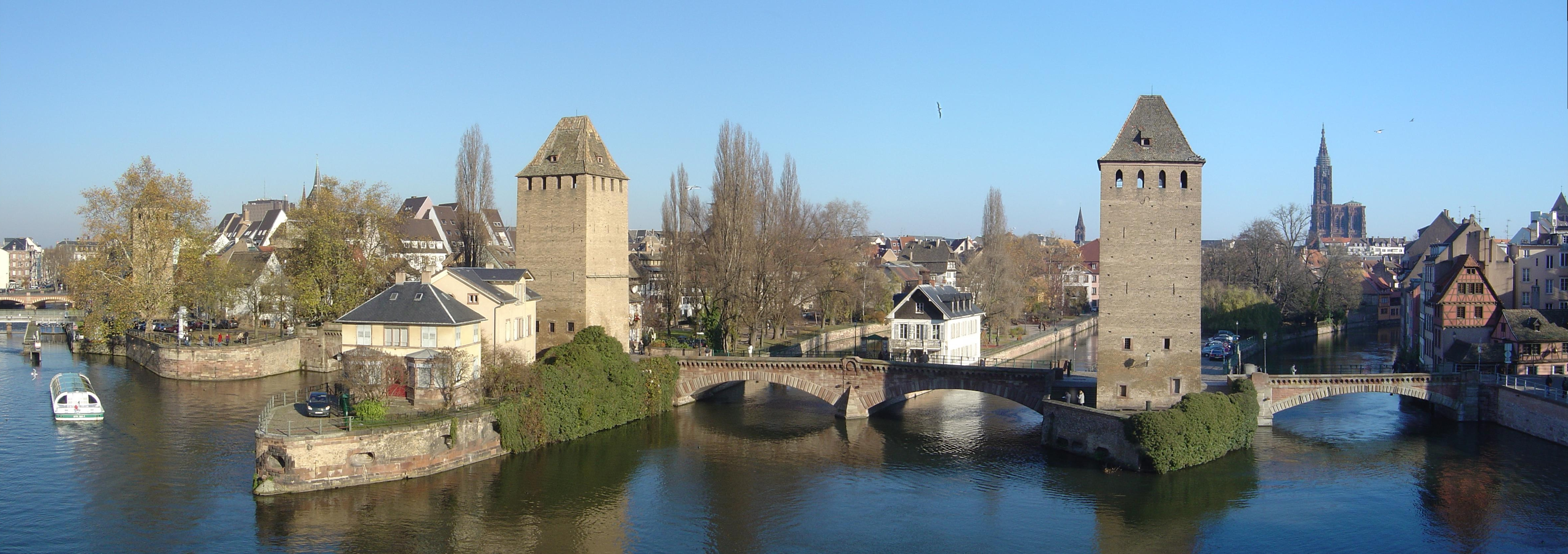 Petite France from Barrage Vauban